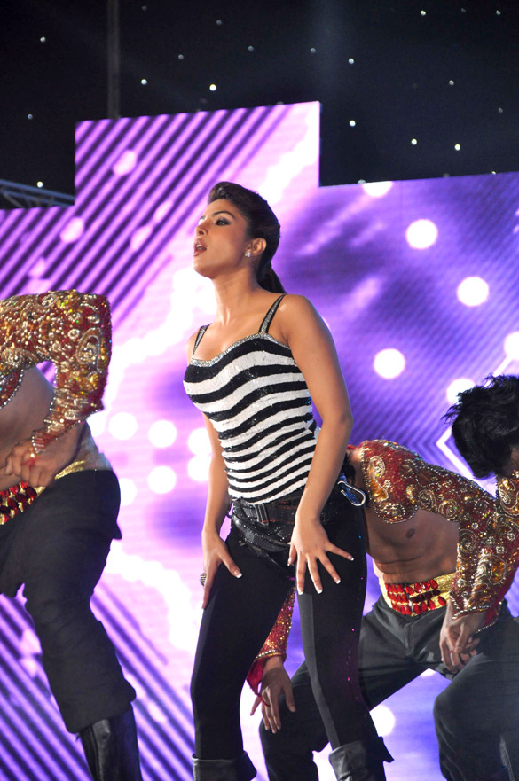 IPL 5 opening ceremony